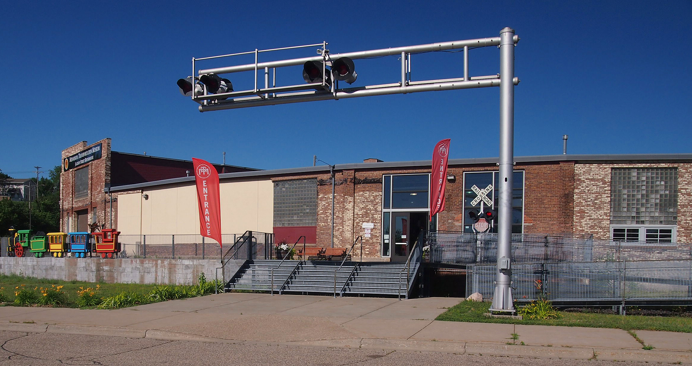 Jackson Street Roundhouse, Minnesota Transportation Museum, 193 E Pennsylvania Ave, St Paul, Minnesota, USA. Viewed from the northeast.